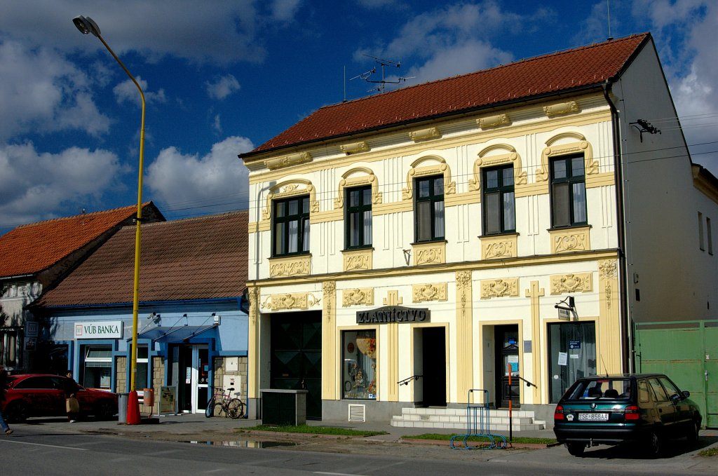 Freedom square, Šaštín-Stráže